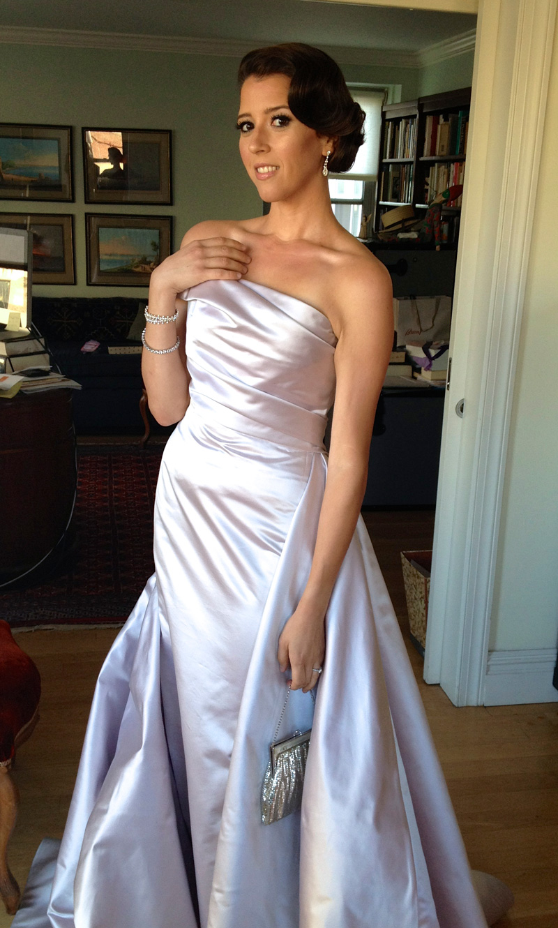 Lisette Oropesa poses for a picture taken before arriving at the Metropolitan Opera Opening night in 2012. Dress design by Austin Scarlett